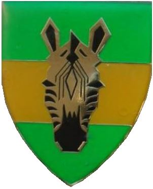 SADF era Craddock Commando emblem